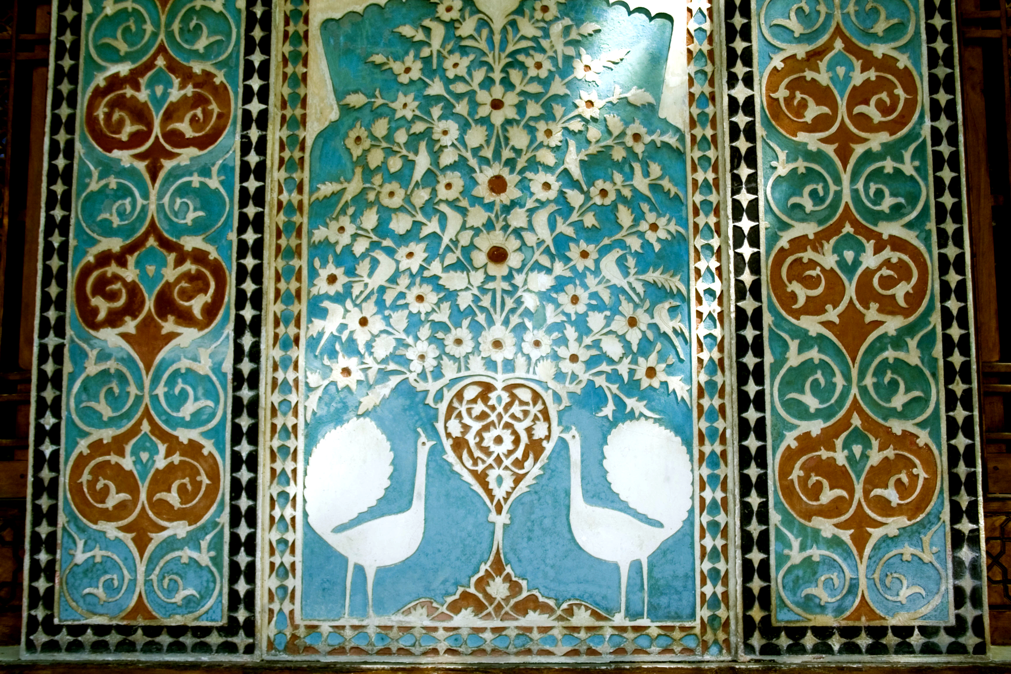 A mural of the Khan's Palace in Şəki, Azerbaijan